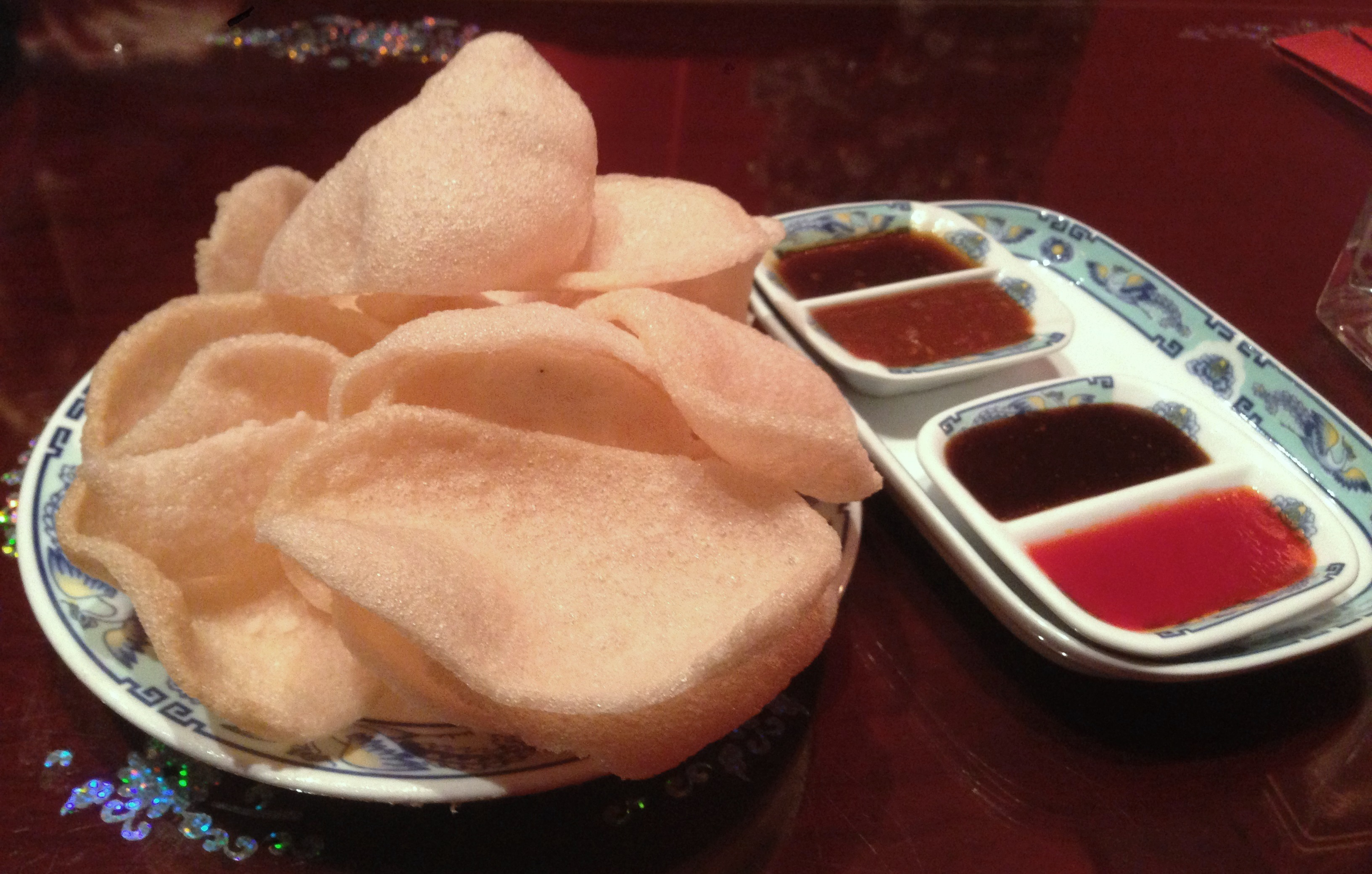 Krupuk served with assorted sauces